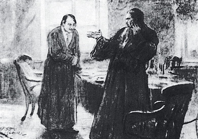 Gogol and Father Matthew by Ilya Repin